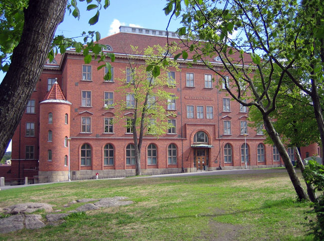 Luostarivuori school building in Turku, Finland